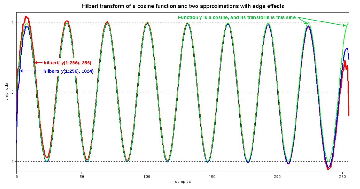 The Hilbert transform of cos(ωt) is sin(ωt). When a finite segment of cos(ωt) is transformed, edge effects inevitably occur. Using a segment length of 256 samples, this figure shows a sine function and two approximate Hilbert transforms computed by the MATLAB library function, hilbert(·), which supports optional zero-filling of the segment to be transformed. The red graph is the result of no zero-filling, and the blue graph is the result of 300% zero-filling. In the latter case, the edge effects are almost all due to the rise and fall times of the Hilbert transform's 2/(πn) impulse response. In the "red" case, we have the added effect of circular convolution. In other words, in the blue case, distortion occurs when some of the filter taps are coinciding with zeros, instead of with samples of cos(ωt). And in the red case, those same taps are coinciding with wrapped-around (and out-of-phase) samples of cos(ωt).